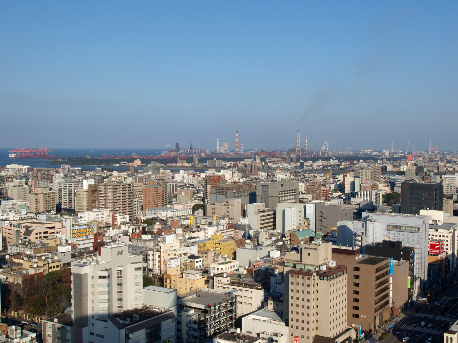 Oita Industrial Area, Oita Pref., Japan